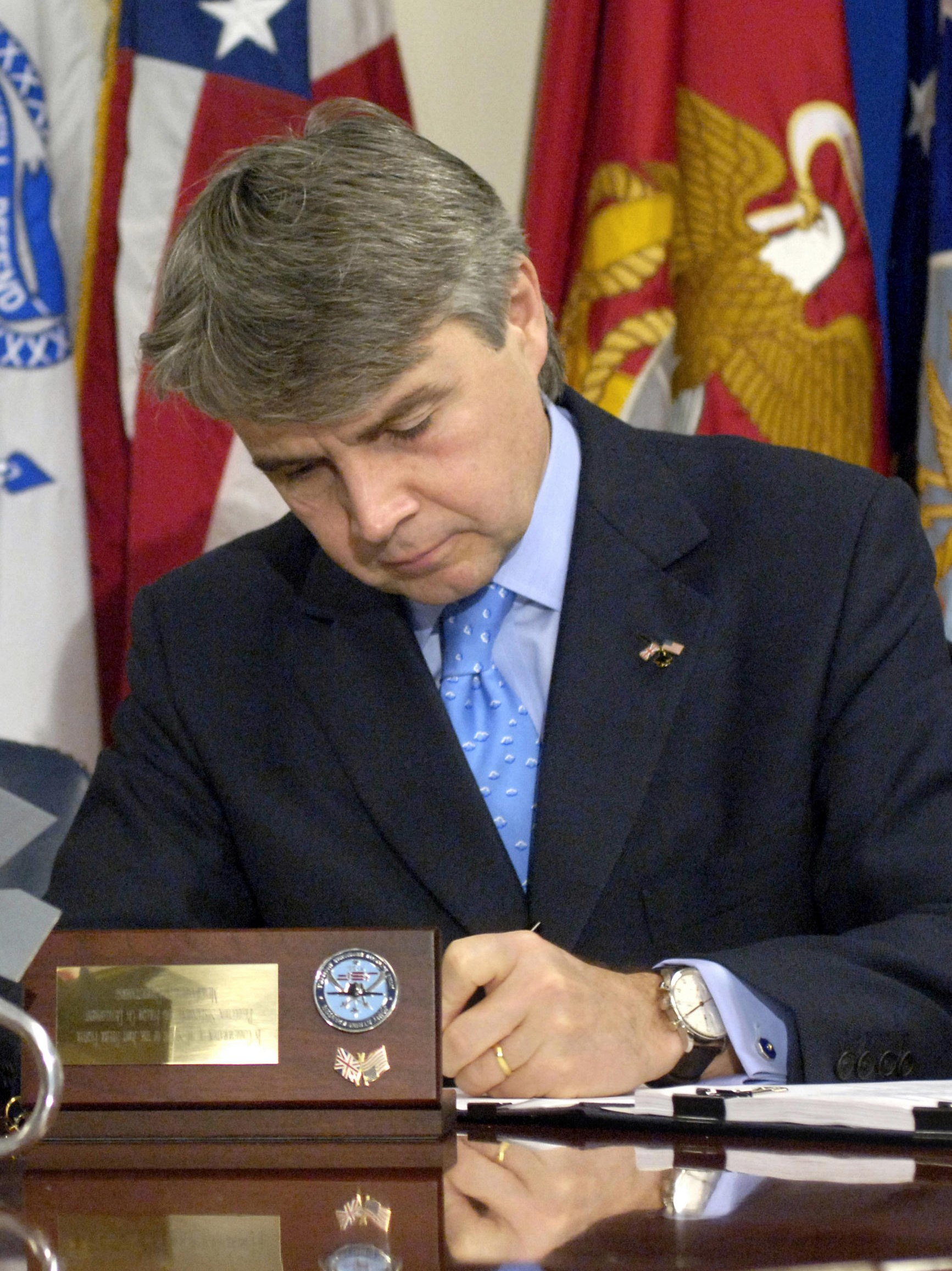 Description: Deputy Secretary of Defense Gordon England, left, looks on as Paul Drayson, Baron Drayson of Kensington, British Minister for Defense Procurement, signs a memorandum concerning the Joint Strike Fighter program during a visit to the Pentagon Dec. 12, 2006. The document establishes a framework for cooperation in the production, sustainment, and follow-on development of aircraft. The United Kingdom joins Canada, the Netherlands, and the United States as the fourth nation to sign the memorandum. DoD photo by Robert D. Ward.